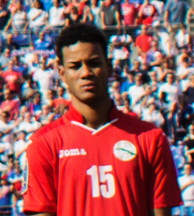 CONCACAF Quarter-Finals (USA vs Cuba) - Baltimore, MD (July 2015) Adrián Diz